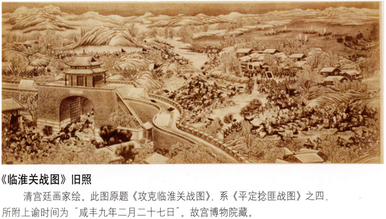 A battle of the Nien Rebellion (1851–1868). From "Victory over the Nian", a set of eighteen paintings.